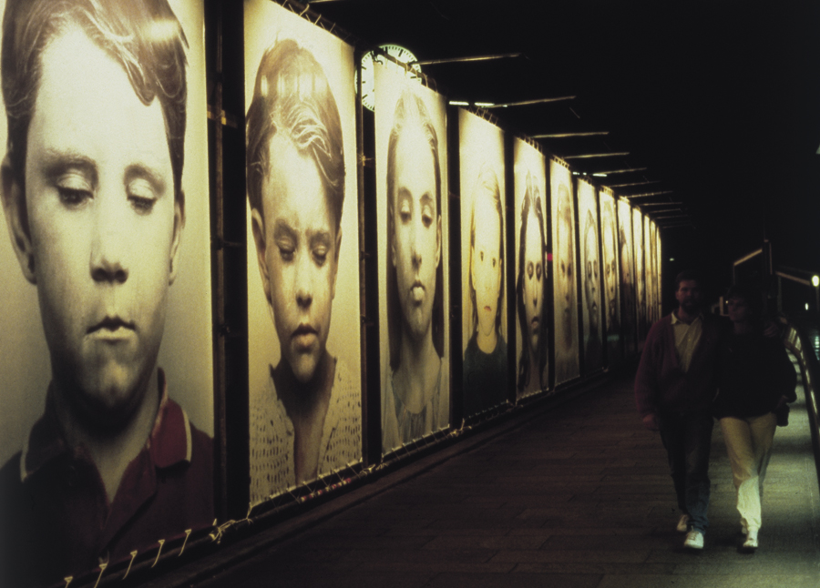 Installation "Selection - Ninth November Night", between Ludwig Museum and Cologne Cathedral, 1988.